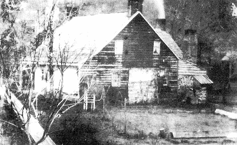 Photo of the Nicholas house in New Jersey late 1800s.